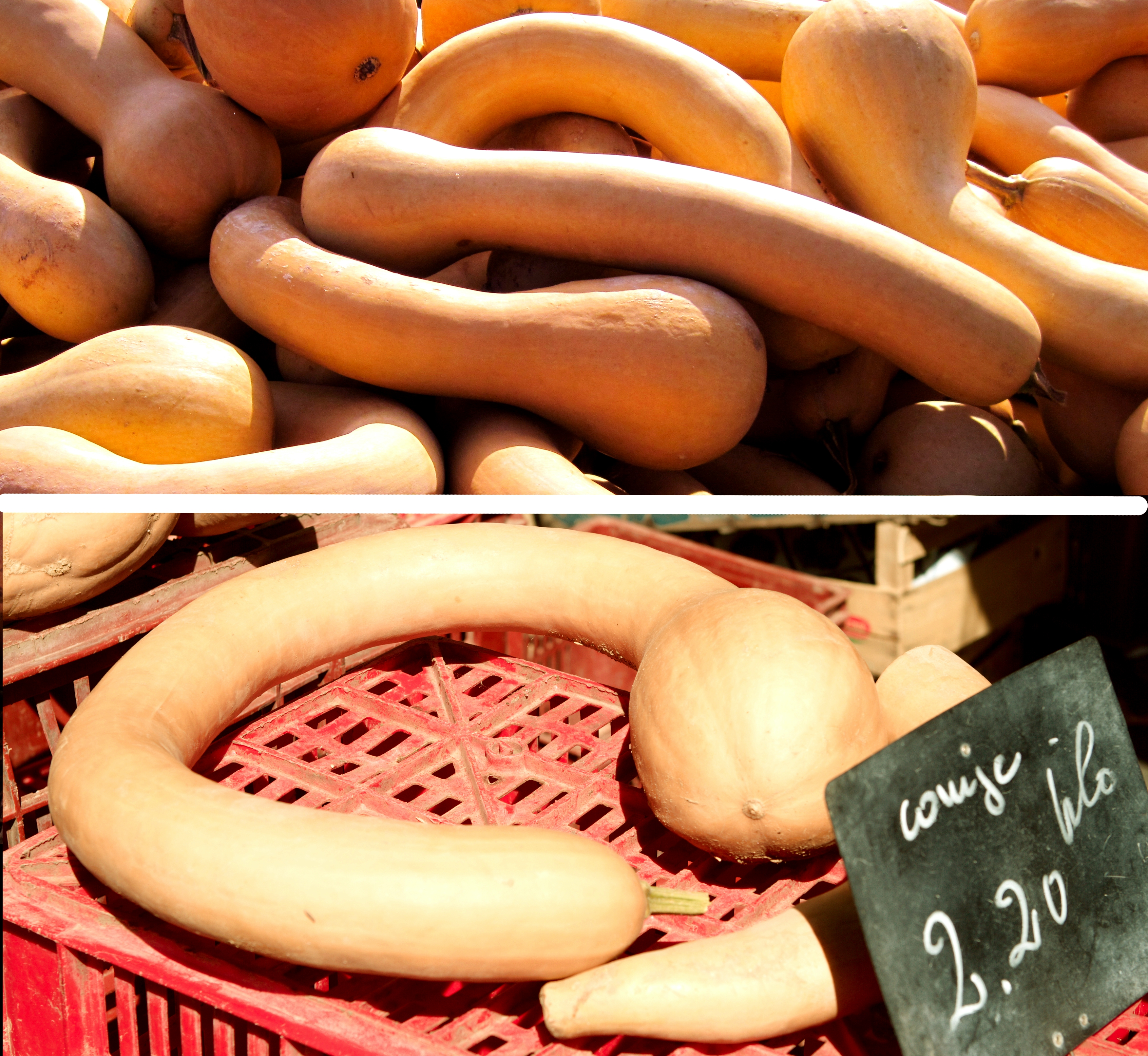 Two examples of mature squashes belonging to the informal horticultural group Cucurbita moschata Crookneck group. The upper picture is the USA Cucurbita moschata 'Neck pumpkin', similar to other "neck" winter squashes from USA, whereas the lower picture is an italian/french Cucurbita moschata probably like a trombone or trumpet squash (like those called Tromboncino, Tromba and names such) that are harvested preferably in an immature stage for eating as a summer squash, but that can be eaten also in a mature stage.